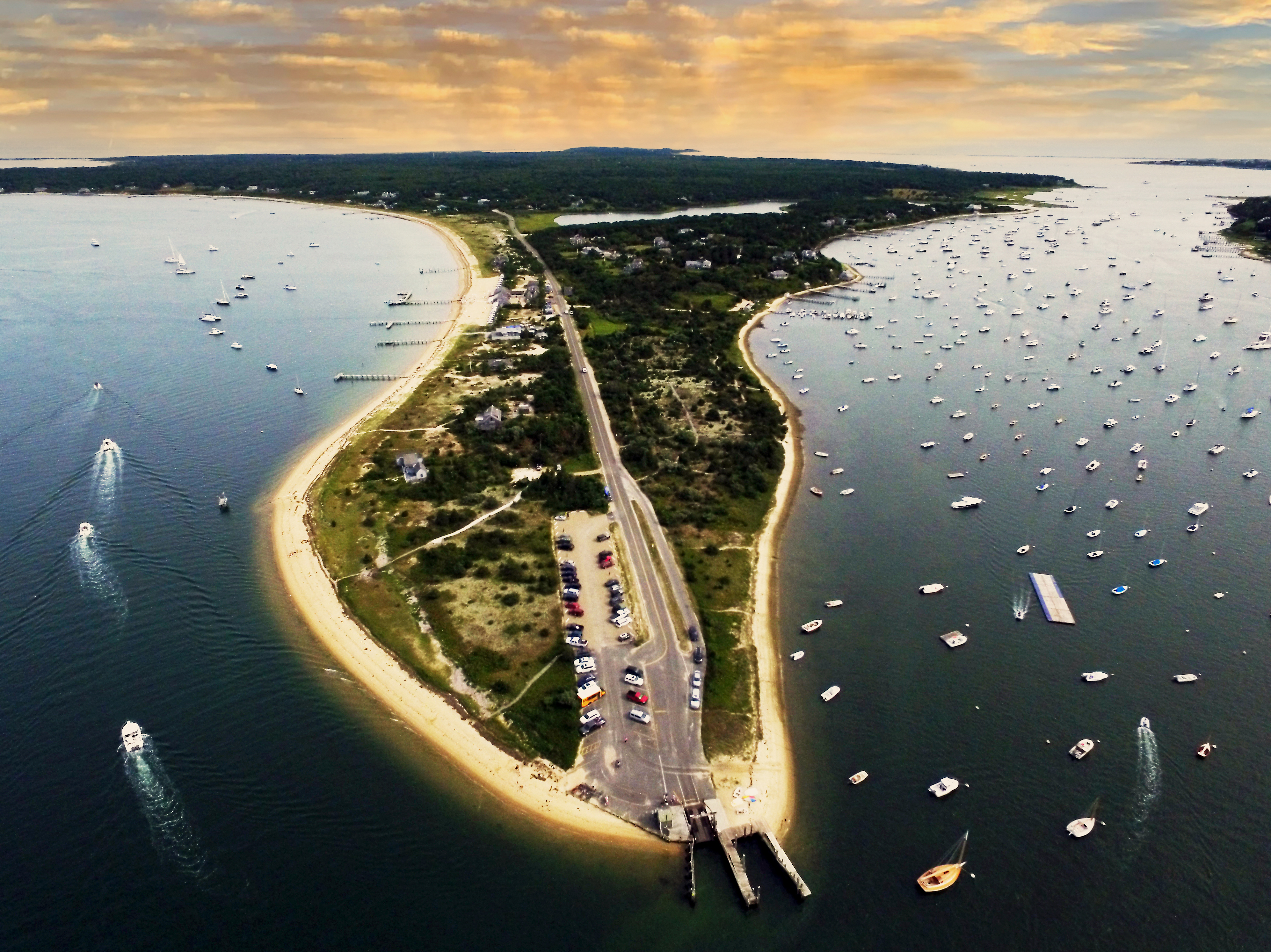 Chappaquiddick Island, Don Ramey Logan